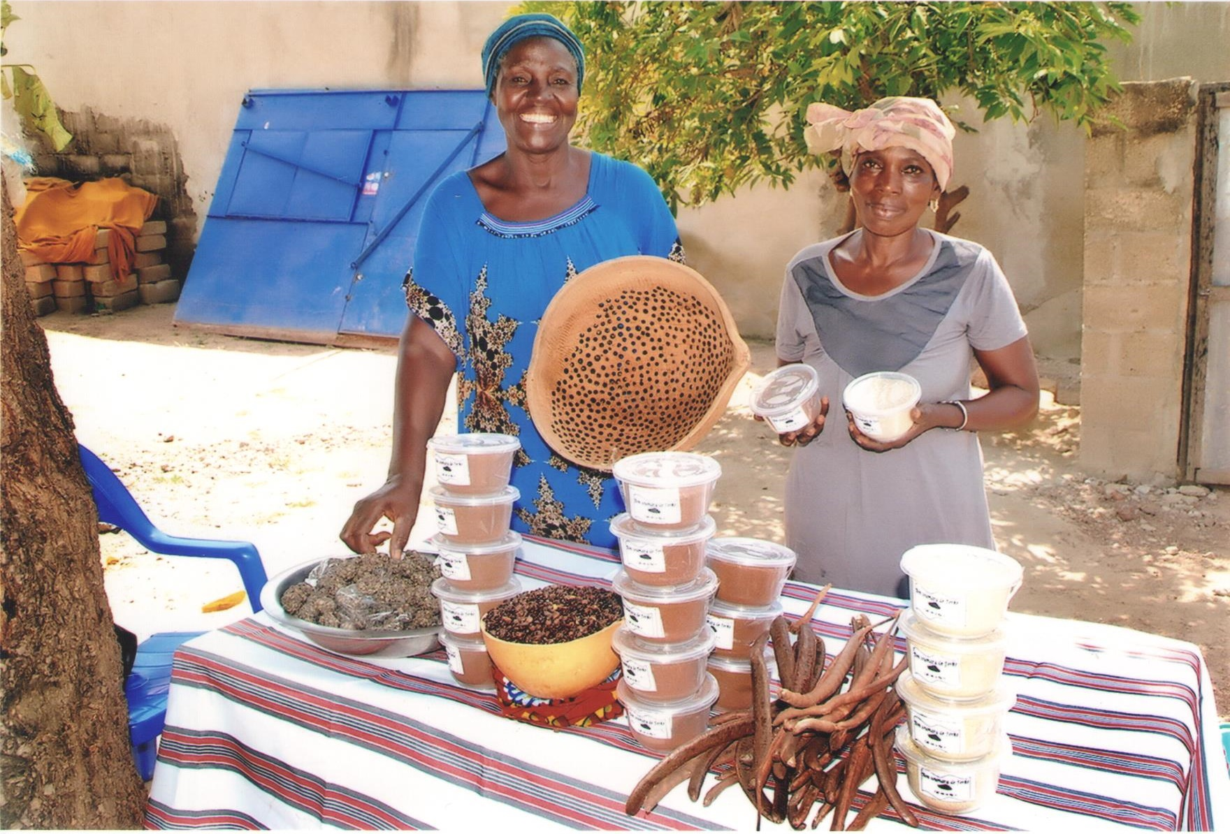 Vendeuse de soumbara et ses produits dérivés à Ferké ville située à 585 km au nord Abidjan ( Côte d'Ivoire) This is an image of "African people at work" from Ivory Coast